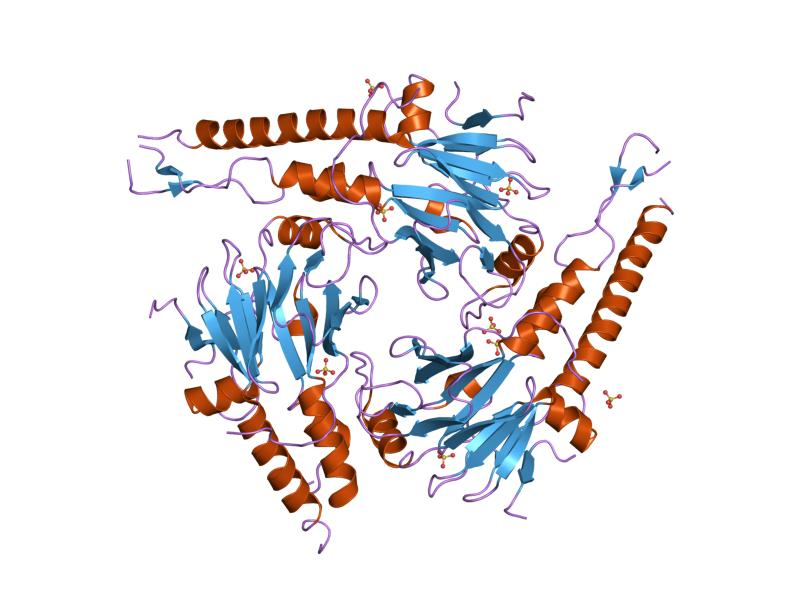 Cartoon representation of the molecular structure of protein registered with 1dd1 code.